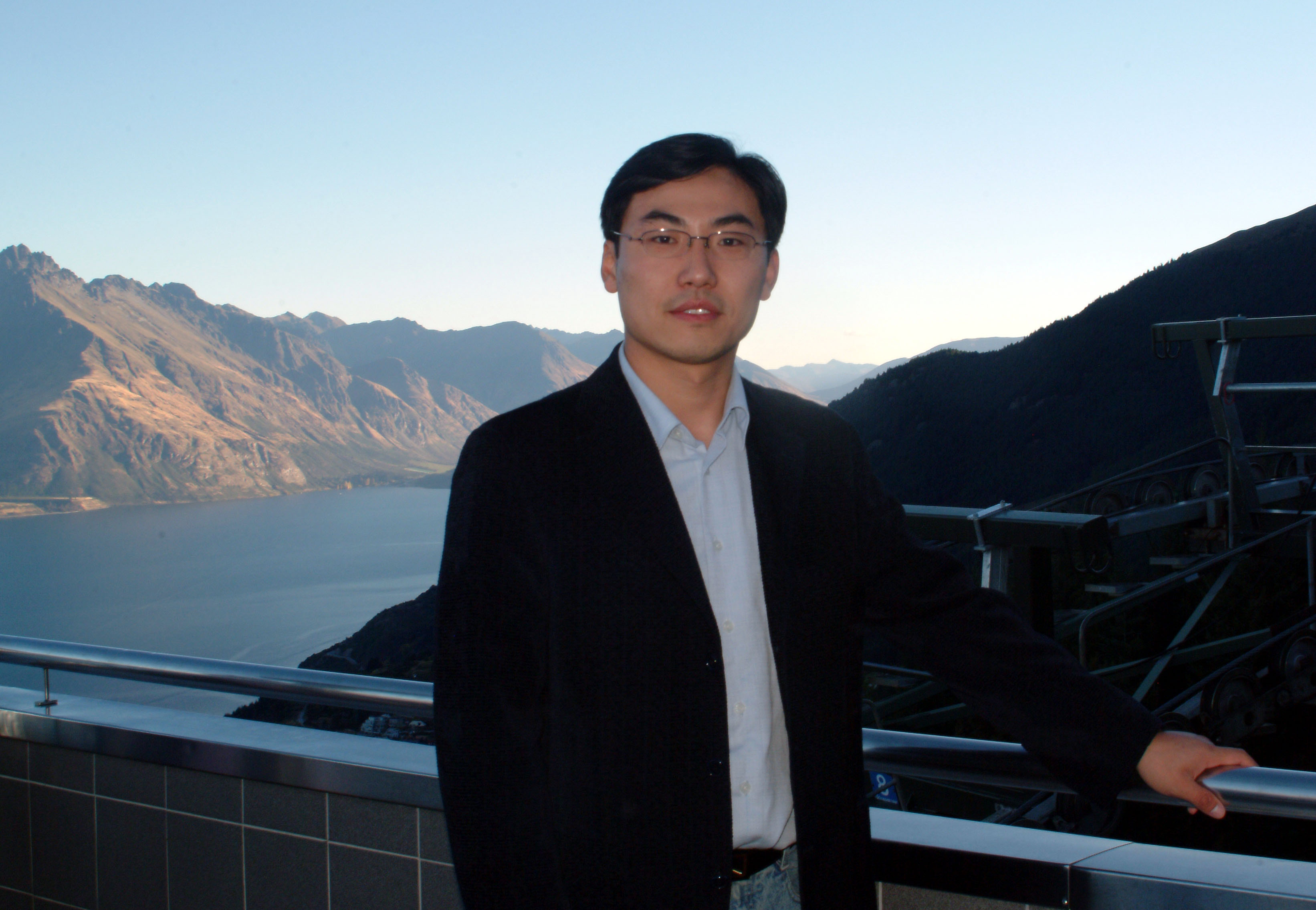 Jia Kuo (贾阔)